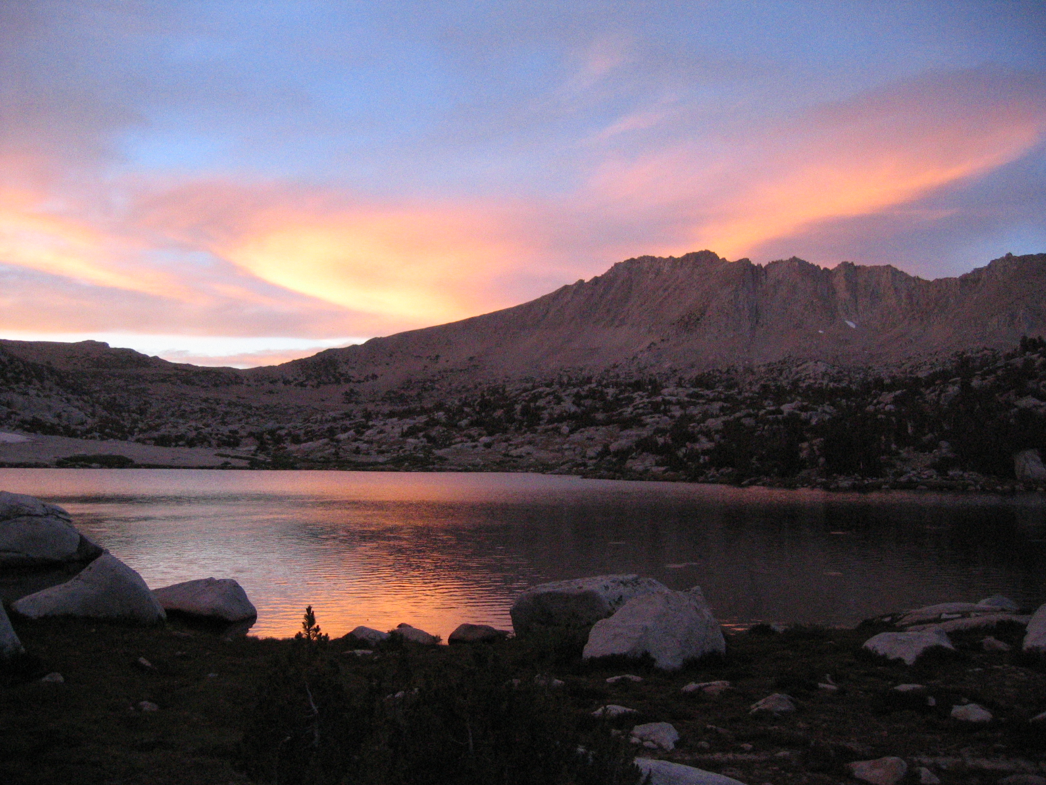 Mount Hopkins over Pioneer Basin, Sierra Nevada, California